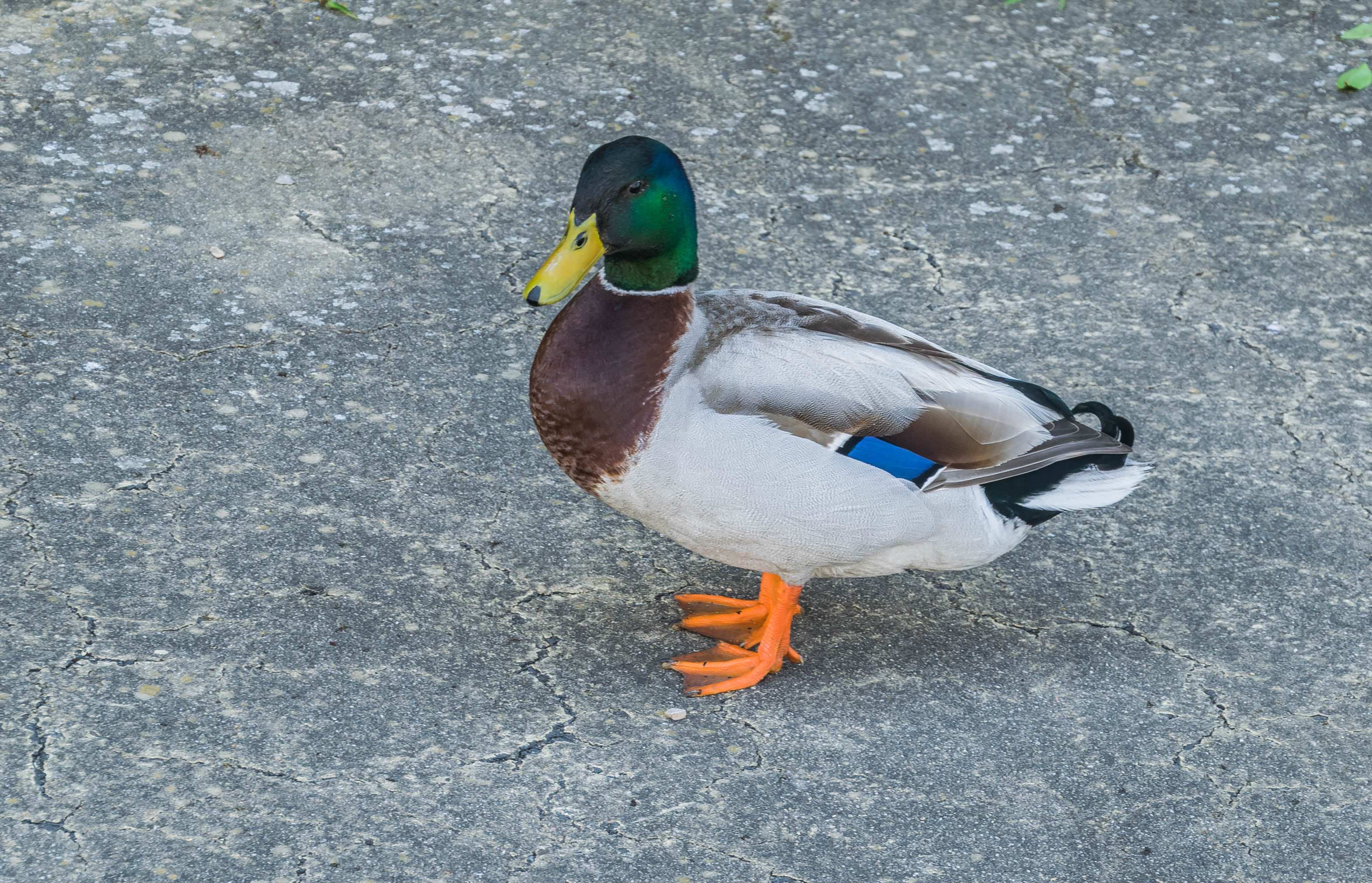 Anas platyrhynchos in Saint-Geniez-d'Olt, Aveyron, France